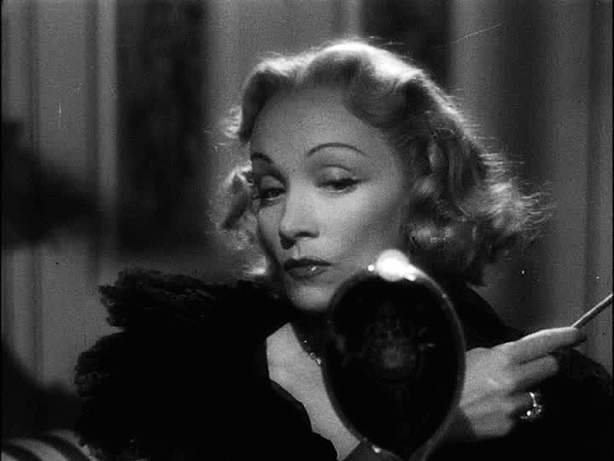 Screenshot of Marlene Dietrich from the trailer for the Alfred Hitchcock film Stage Fright. Dietrich's costume is by Christian Dior.